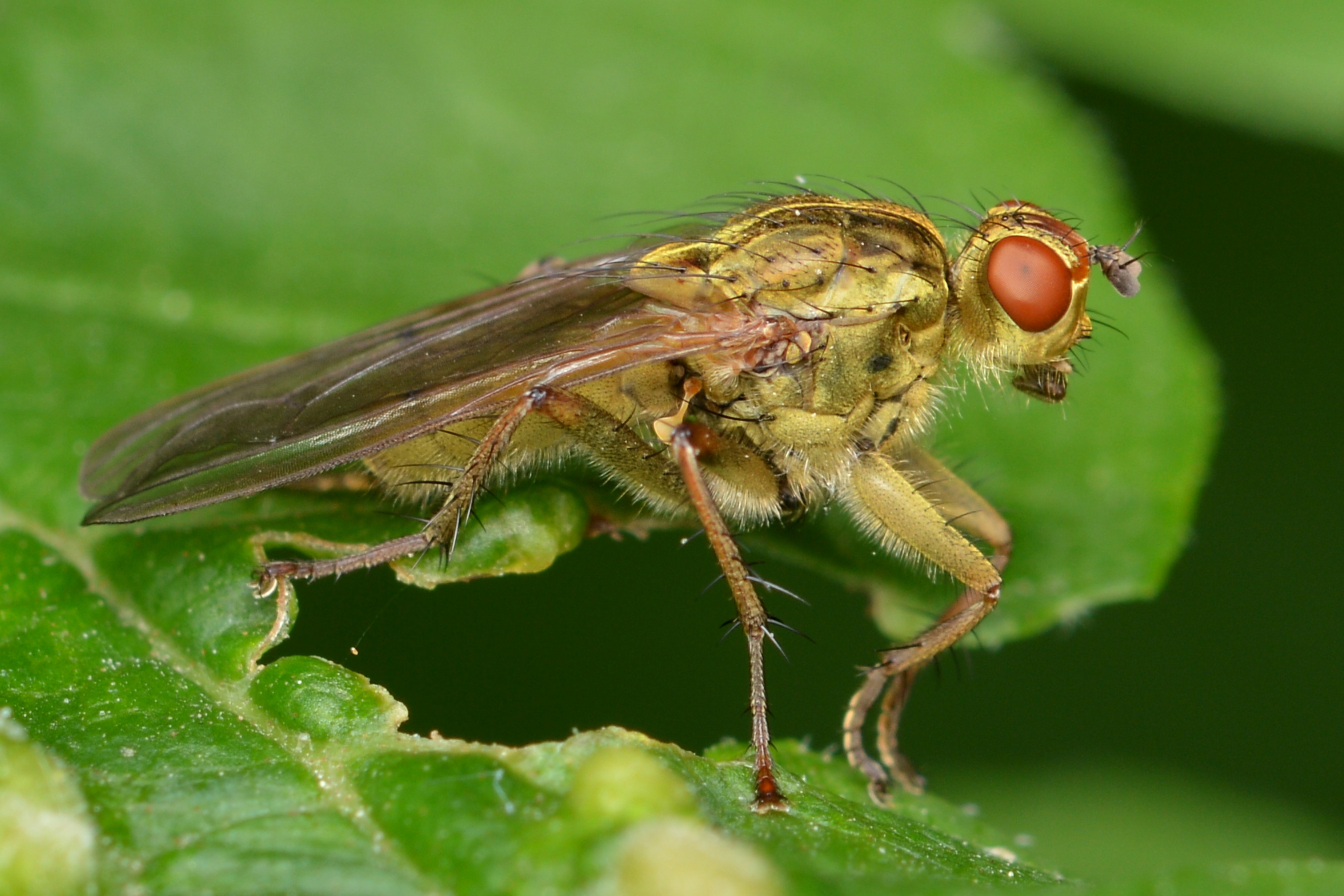 Yellow Dung Fly (Scathophaga stercoraria) in Kitchener, Ontario, Canada.